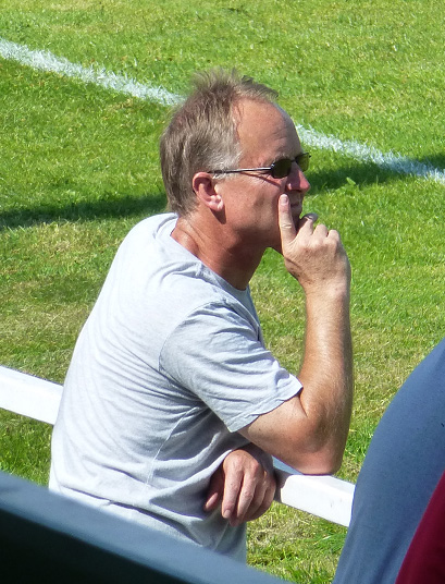 Sean O'Driscoll watches AFC Wulfrunians vs AFC Rushden & Diamonds in July 2014